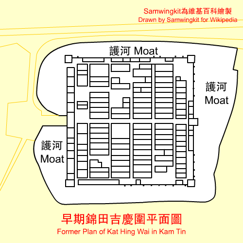 早期吉慶圍平面圖 Former plan of Kat Hing Wai in Kam Tin, Yuen Long, the New Territories, Hong Kong.